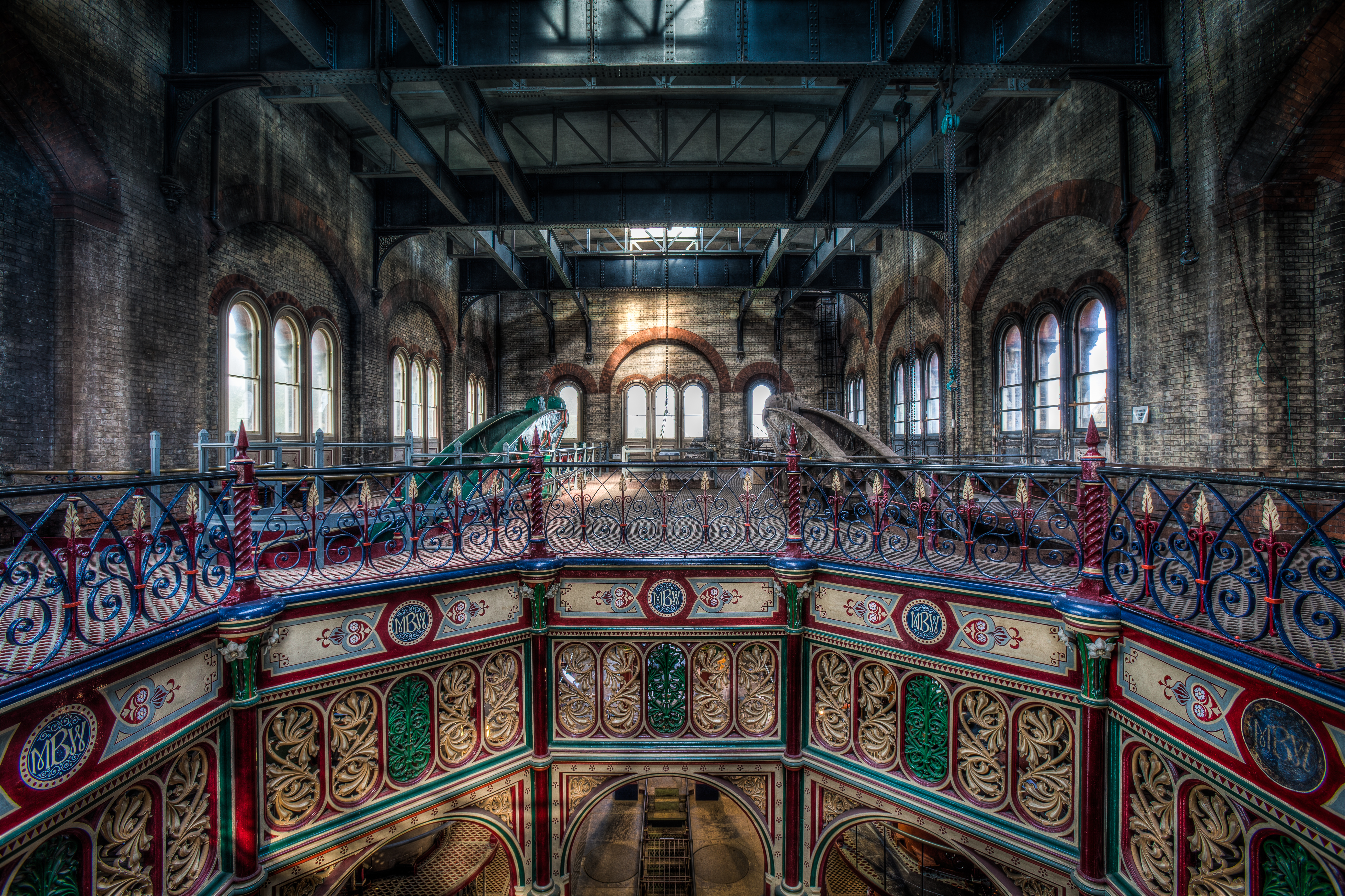 Crossness Pumping Station Wikidata has entry Q5188737 with data related to this item.